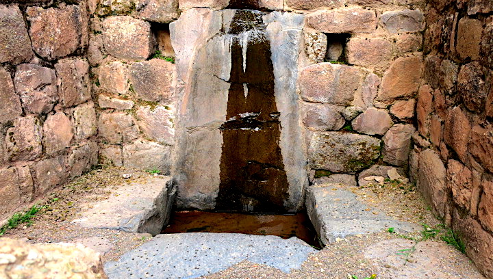 Písac - Cusco region, Peru